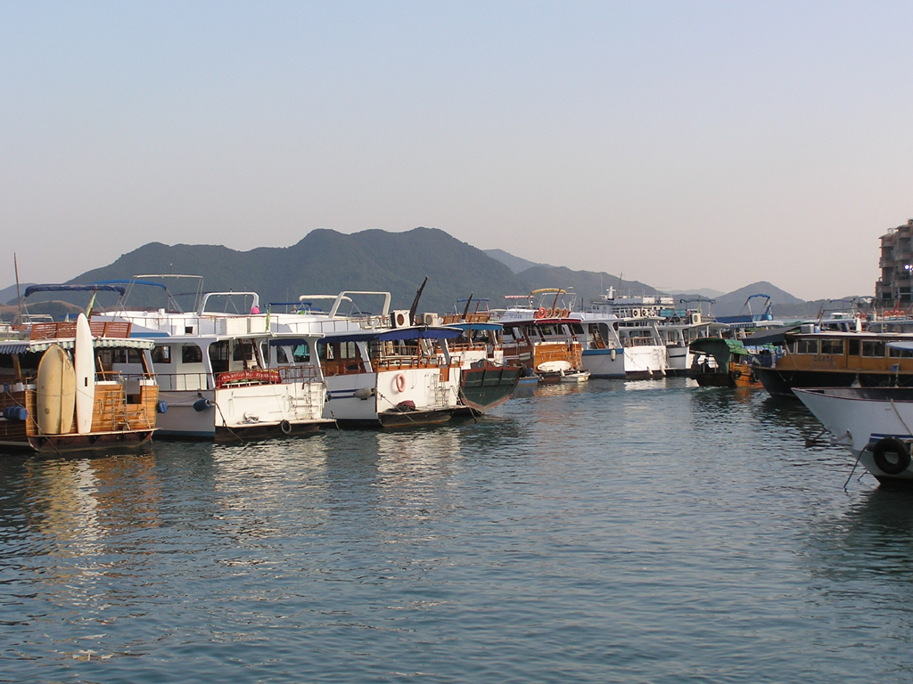 A typhoon shelter at Sai Kung, Hong Kong. This photograph was taken by Alan Mak in December, 2005.